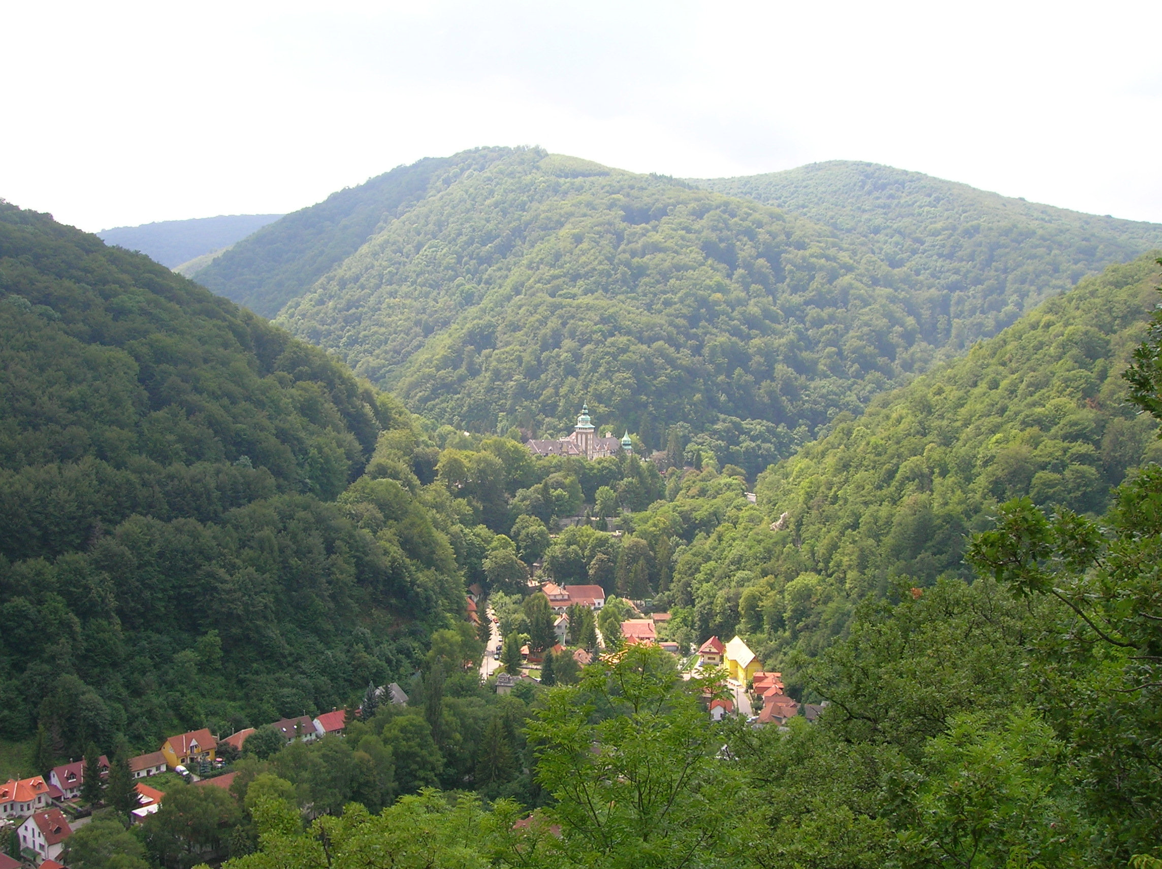 Valley of Lillafüred from Szeleta-tető, in Summertime, 2005. 08. 13